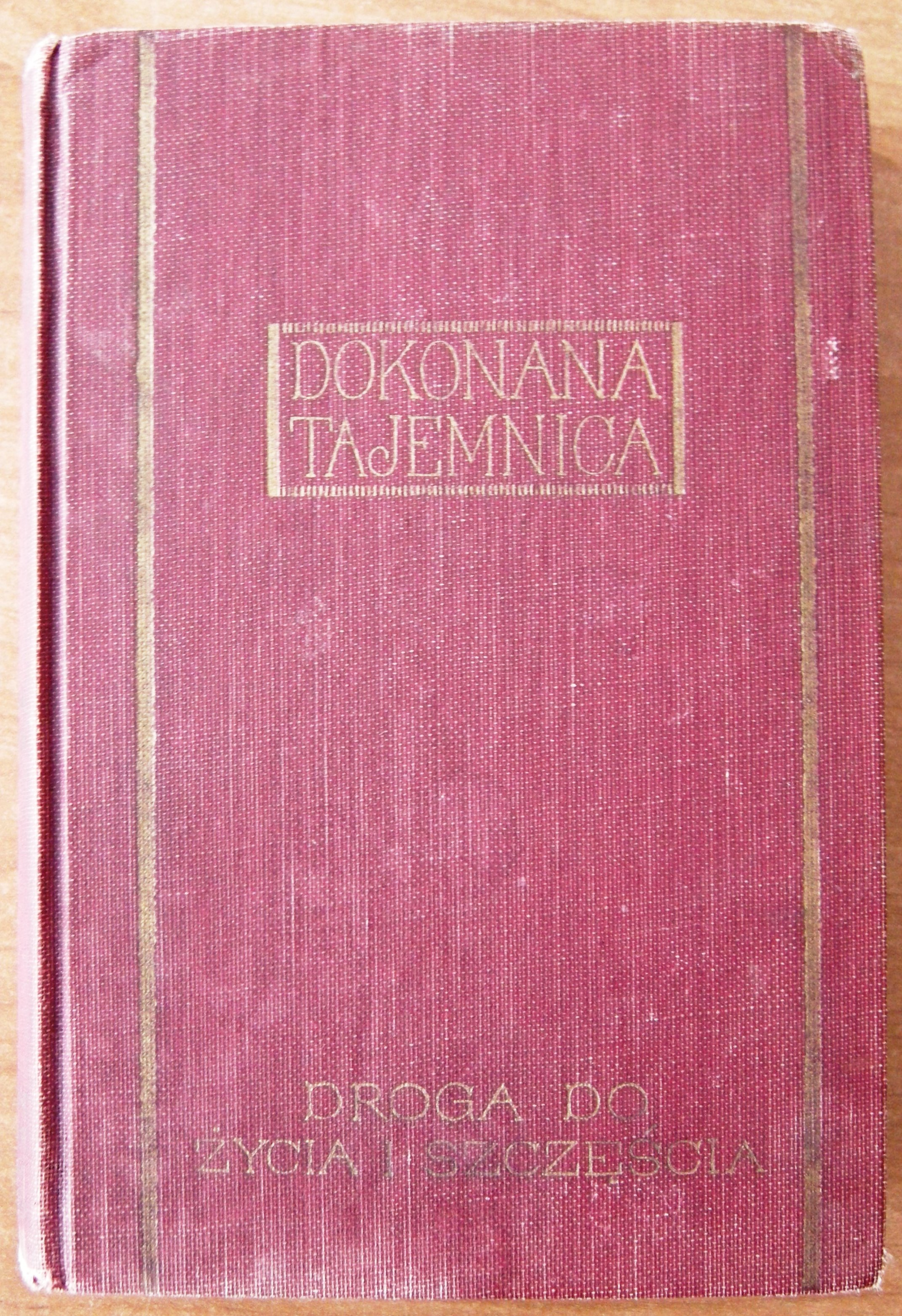 The Finished Mystery